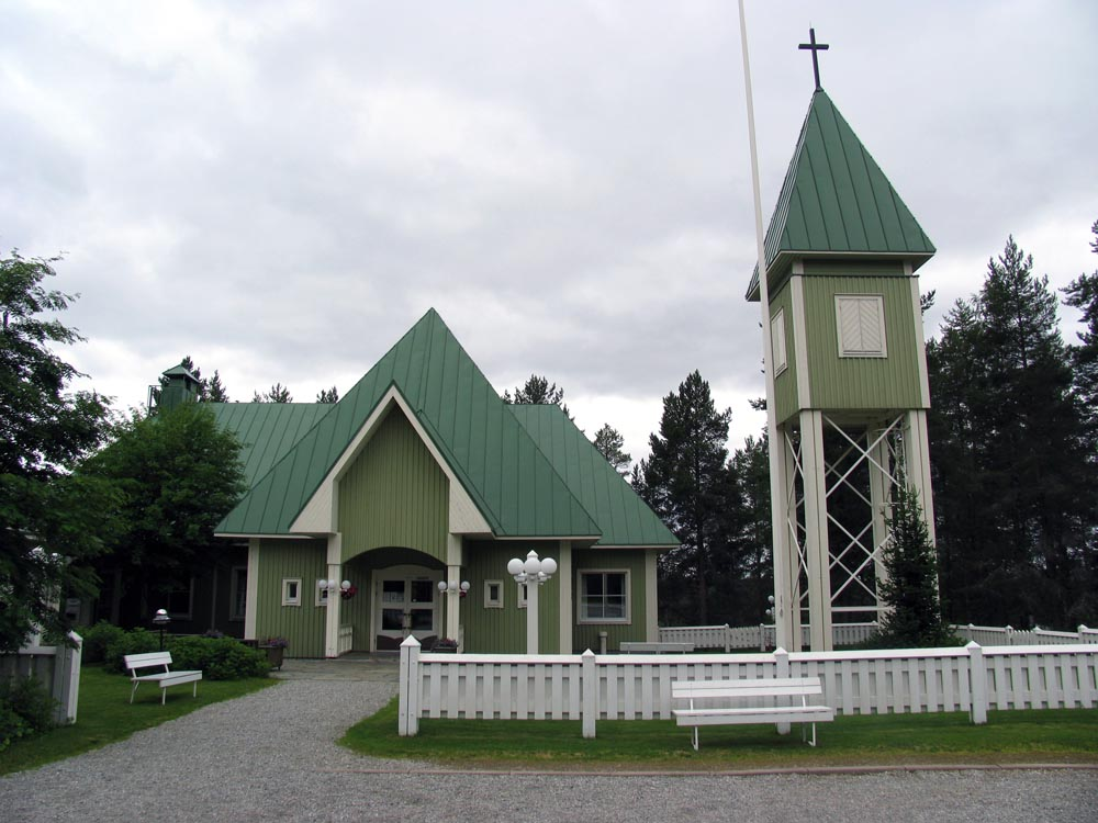 Lentiira Church, Kuhmo, Finland